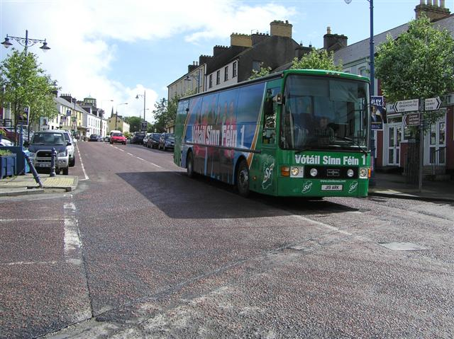 Main Street, Moville Looking north-east